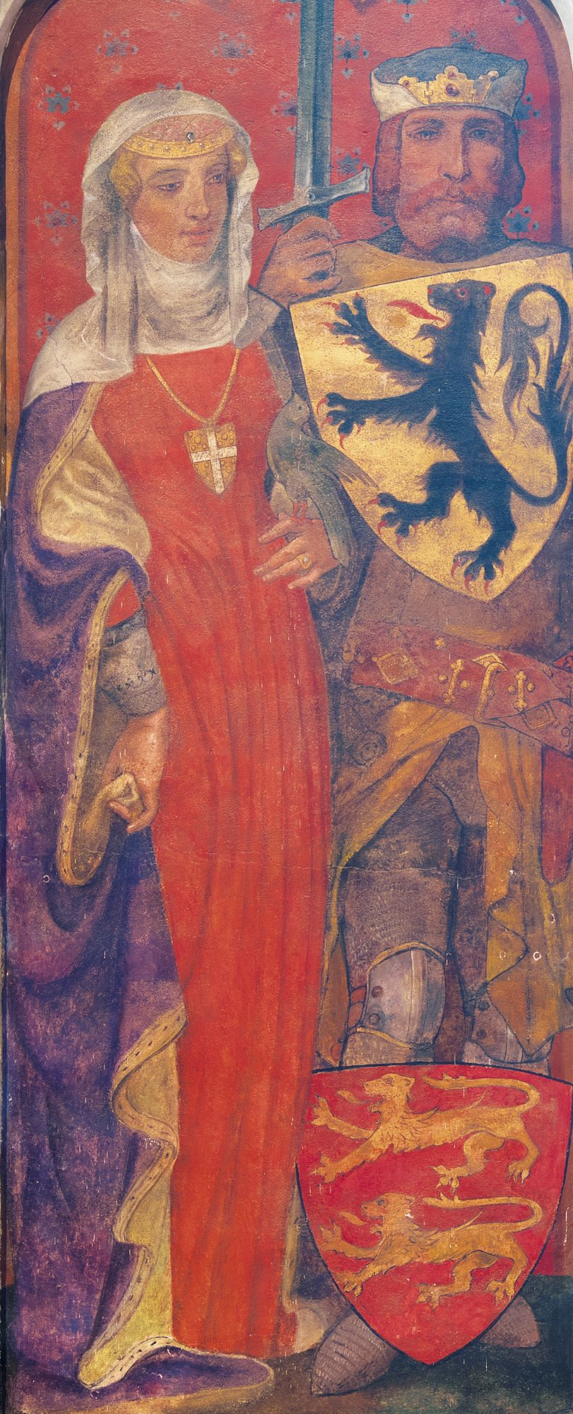 Margaret II of Flanders and her husband Wilhelm of Dampierre